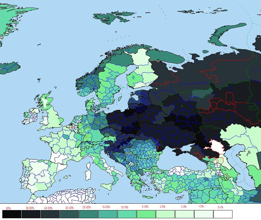 claimed as a map of the distribution of haplogroup R1a y-chromosome. 60% means 60% or more. See talkpage